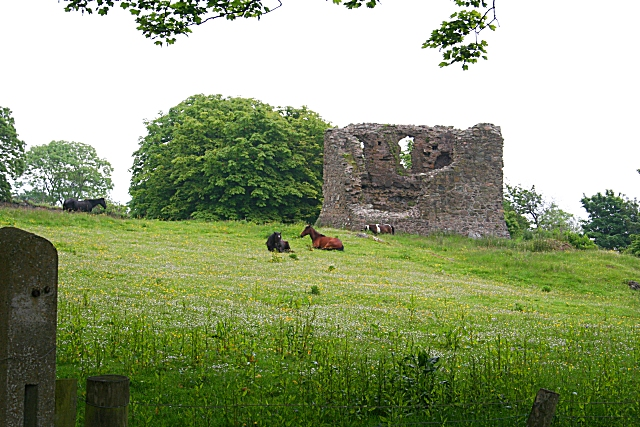 Castle Carra The castle was once a stronghold of the McNeills.